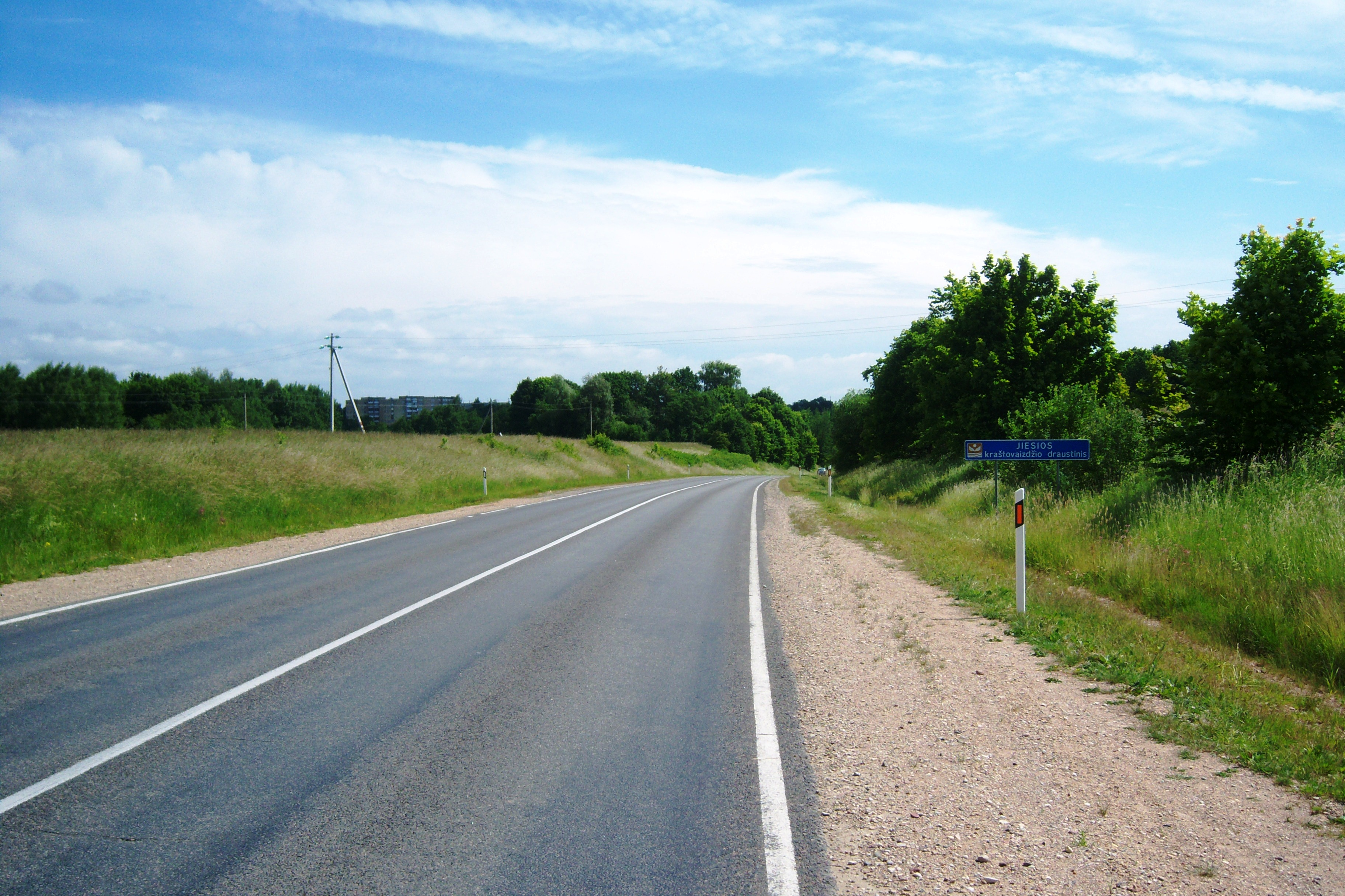 Road KK139 near Rokai, Kaunas district. Lithuania